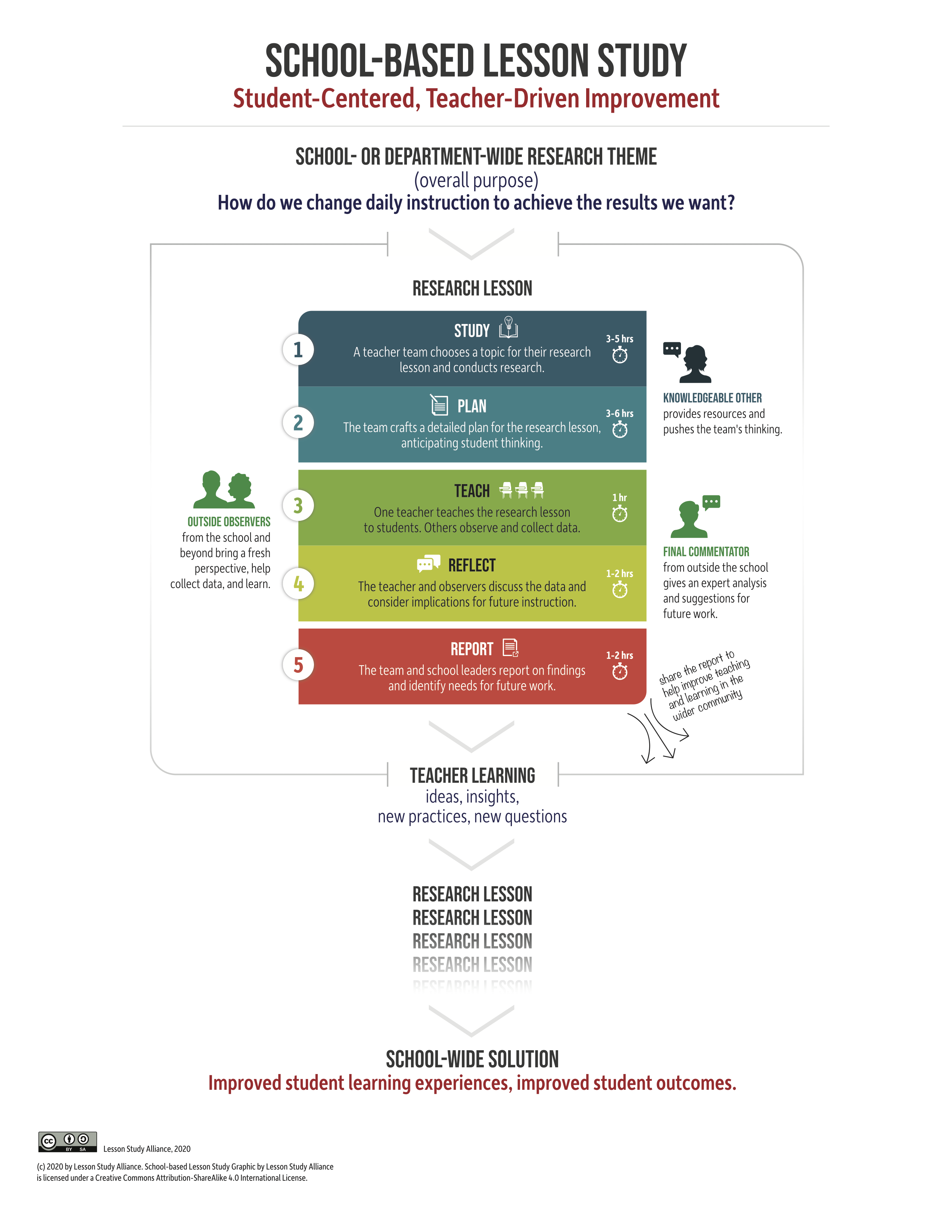 Shows the process of developing one research lesson, and how multiple research lessons build toward addressing a common research theme.